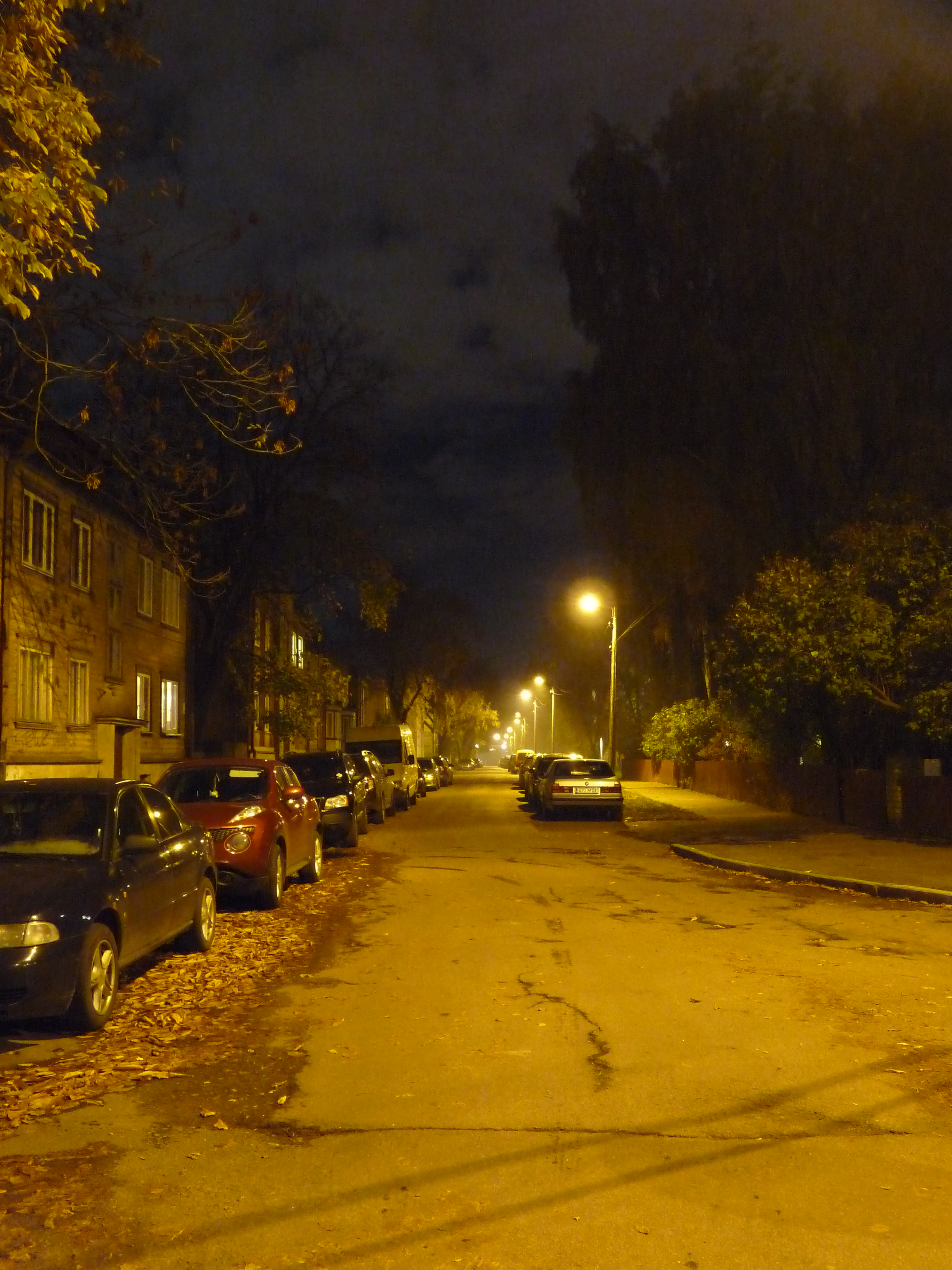 Lille street in Tallinn, Estonia